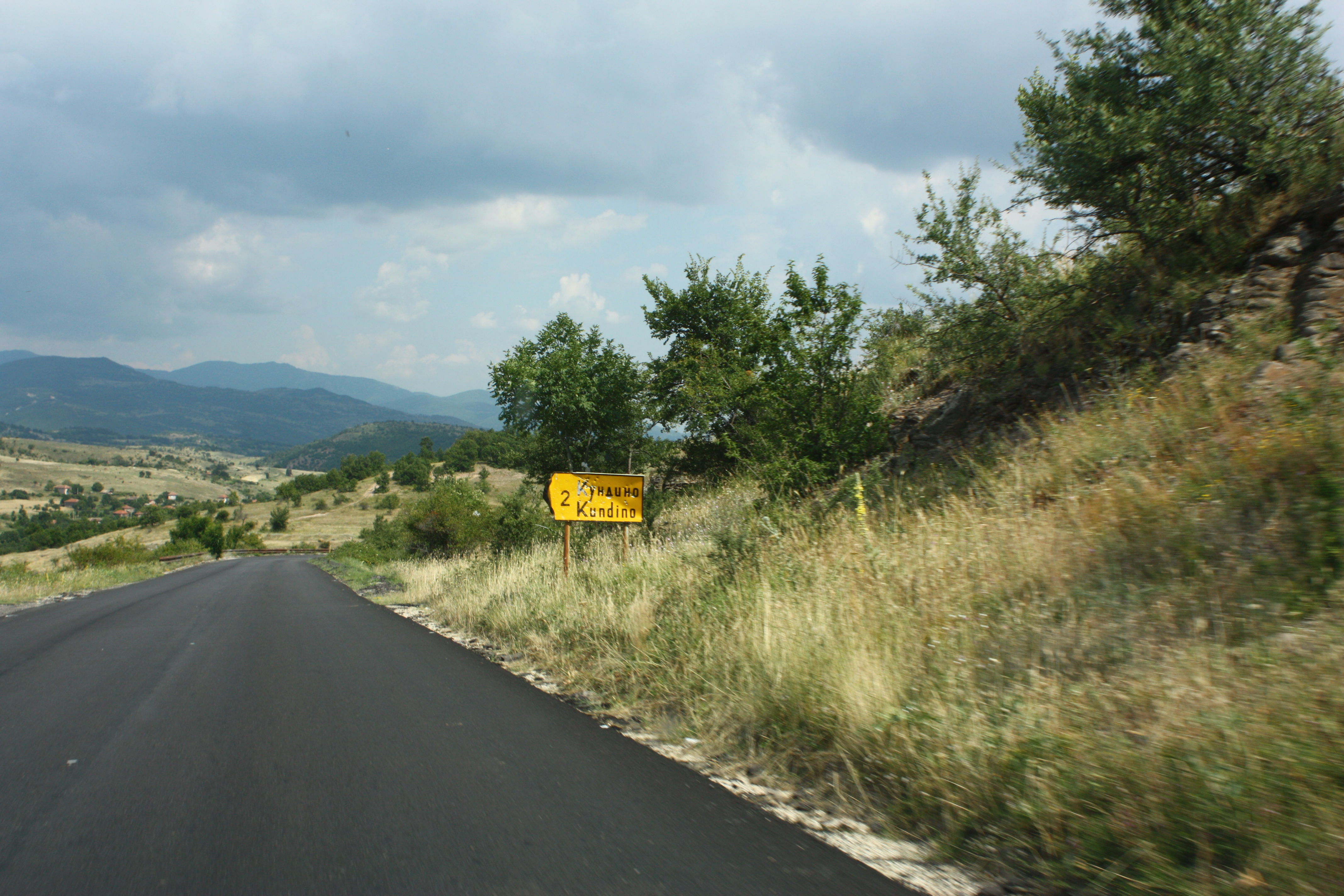 Kundino, Macedonia